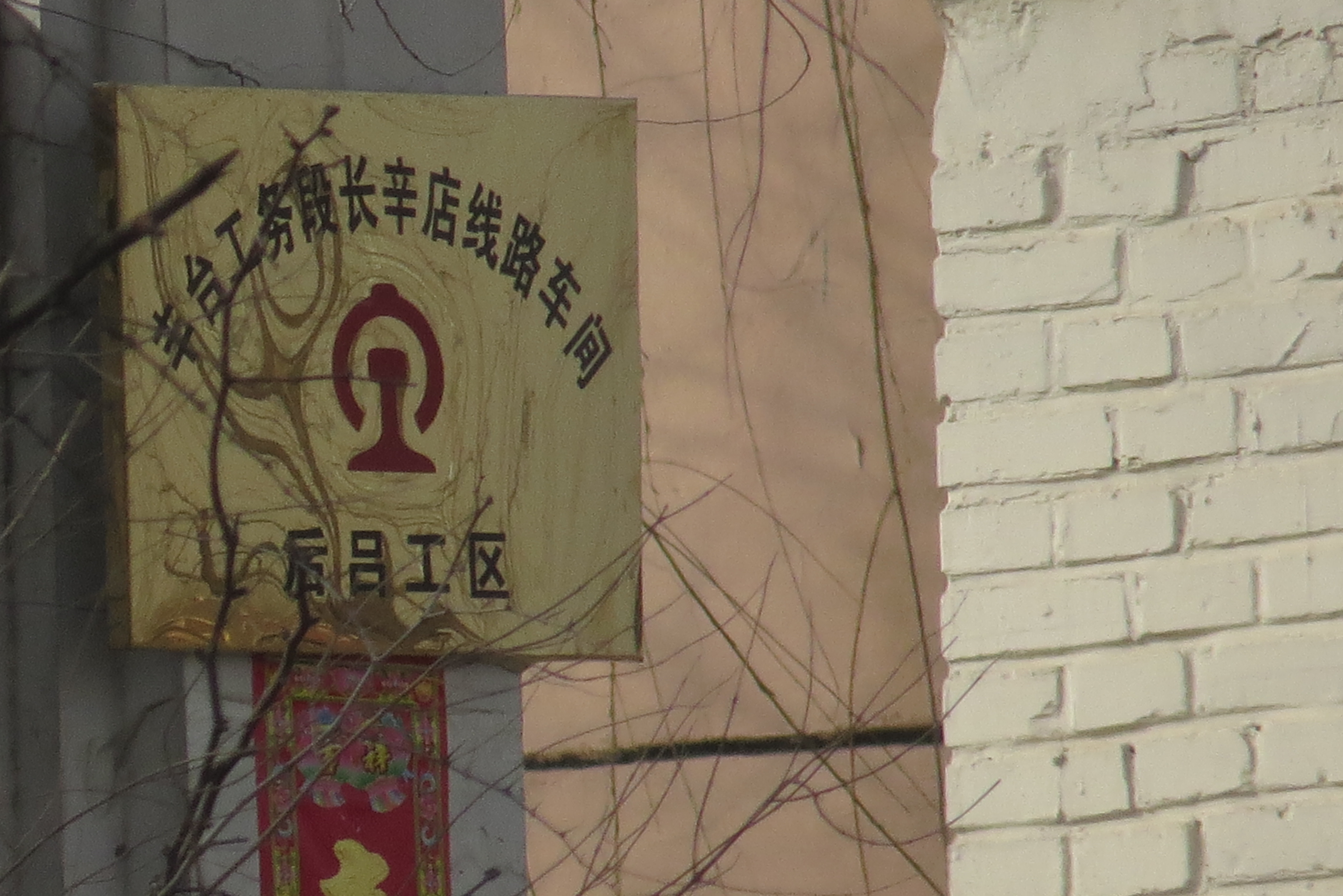 The board says "Houlü Working Area".